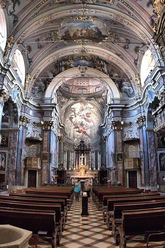 Internal view of "Santissima Trinità" church in Crema, Italy